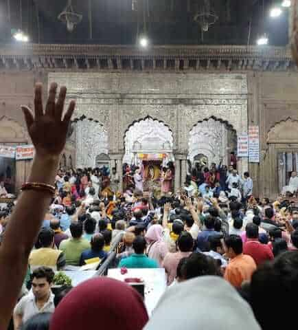 Devotees taking darshan at Banke Bihari Mandir in the evening.